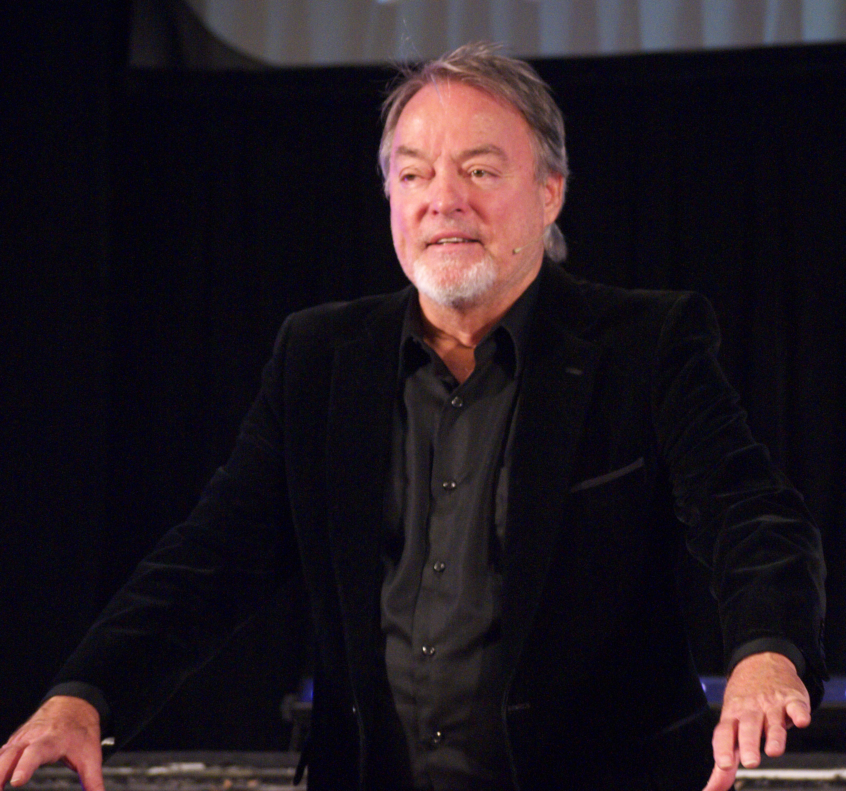 QEDCon 2014 Mark Edward Psychic Blues - Using Guerrilla Skepticism to Fight Fraud